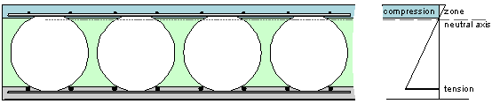 Biaxial Deck